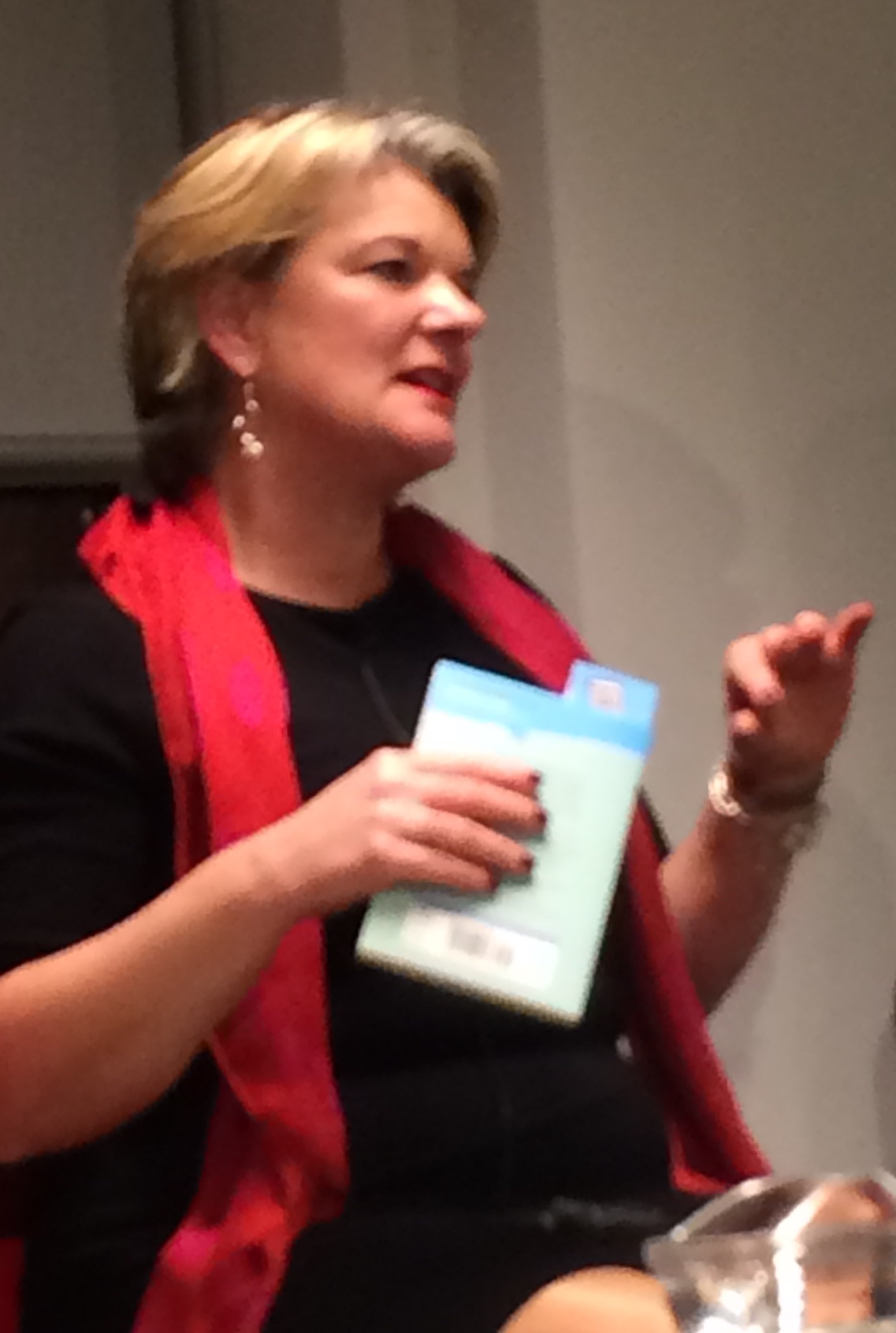 Veronica Henry at Foyle's Bookstore, London